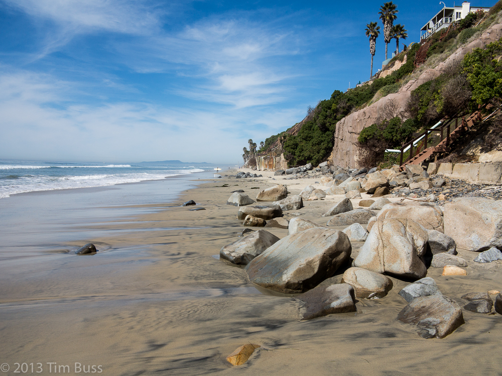 Leucadia State Beach, also known as Beacon's. Encinitas, CA, USA